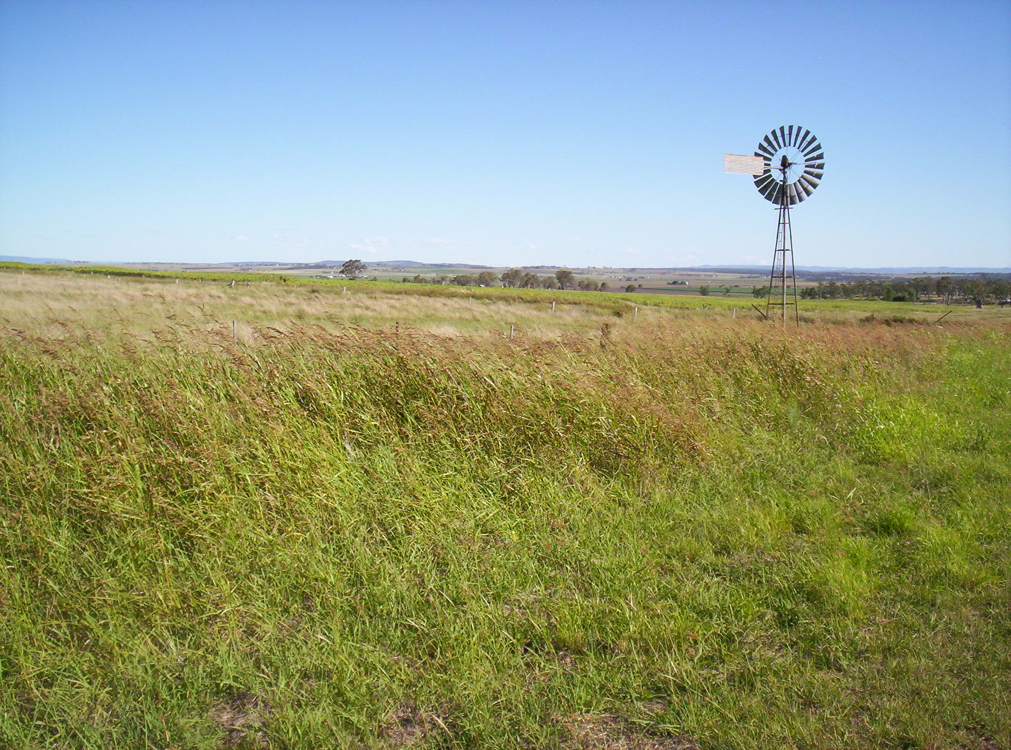 A windmill near Allora, on the Darling Downs, Queensland